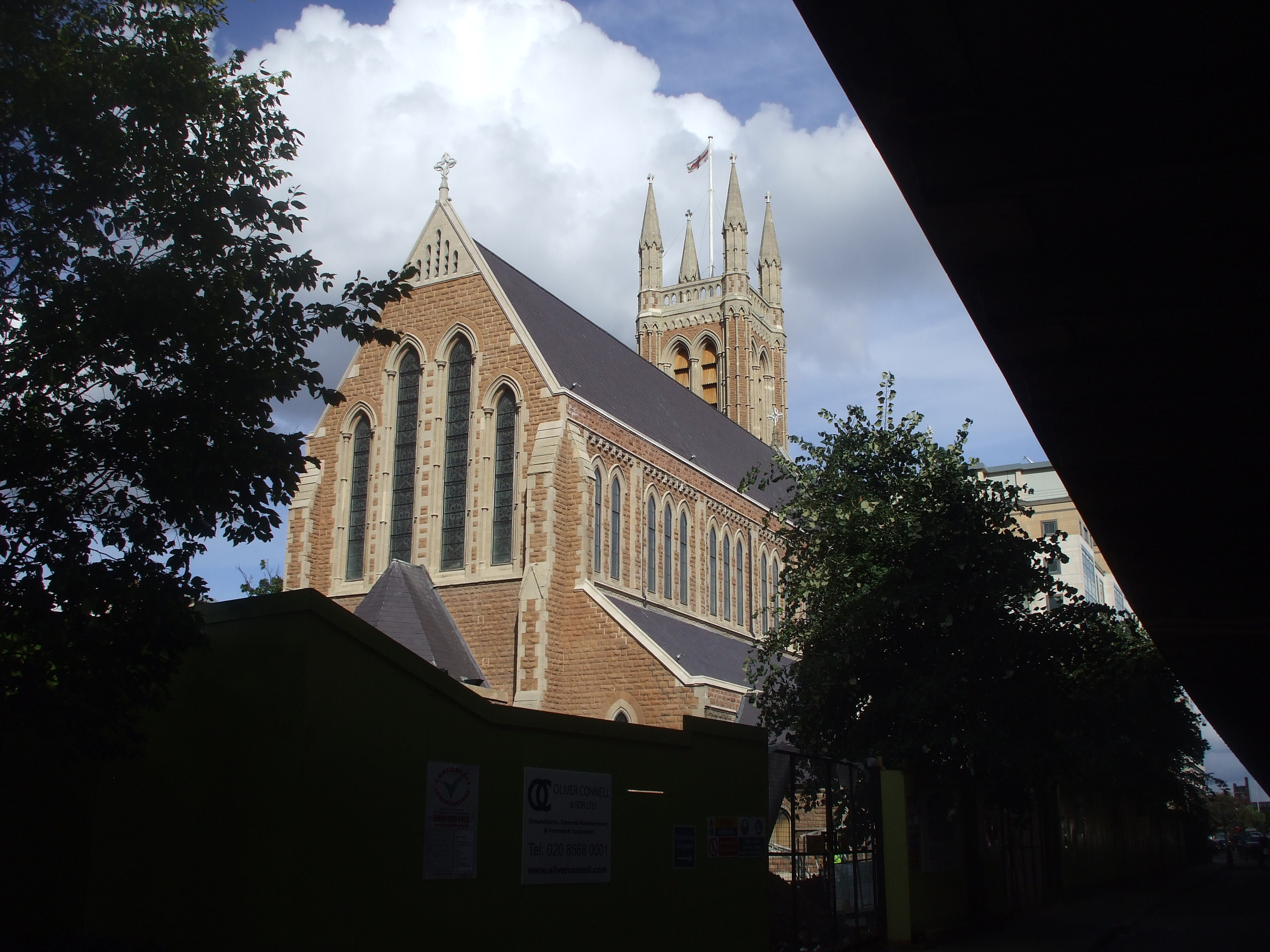 St Paul's Church, Hammersmith, from beneath the flyover, near to Hammersmith, Hammersmith And Fulham, Great Britain.